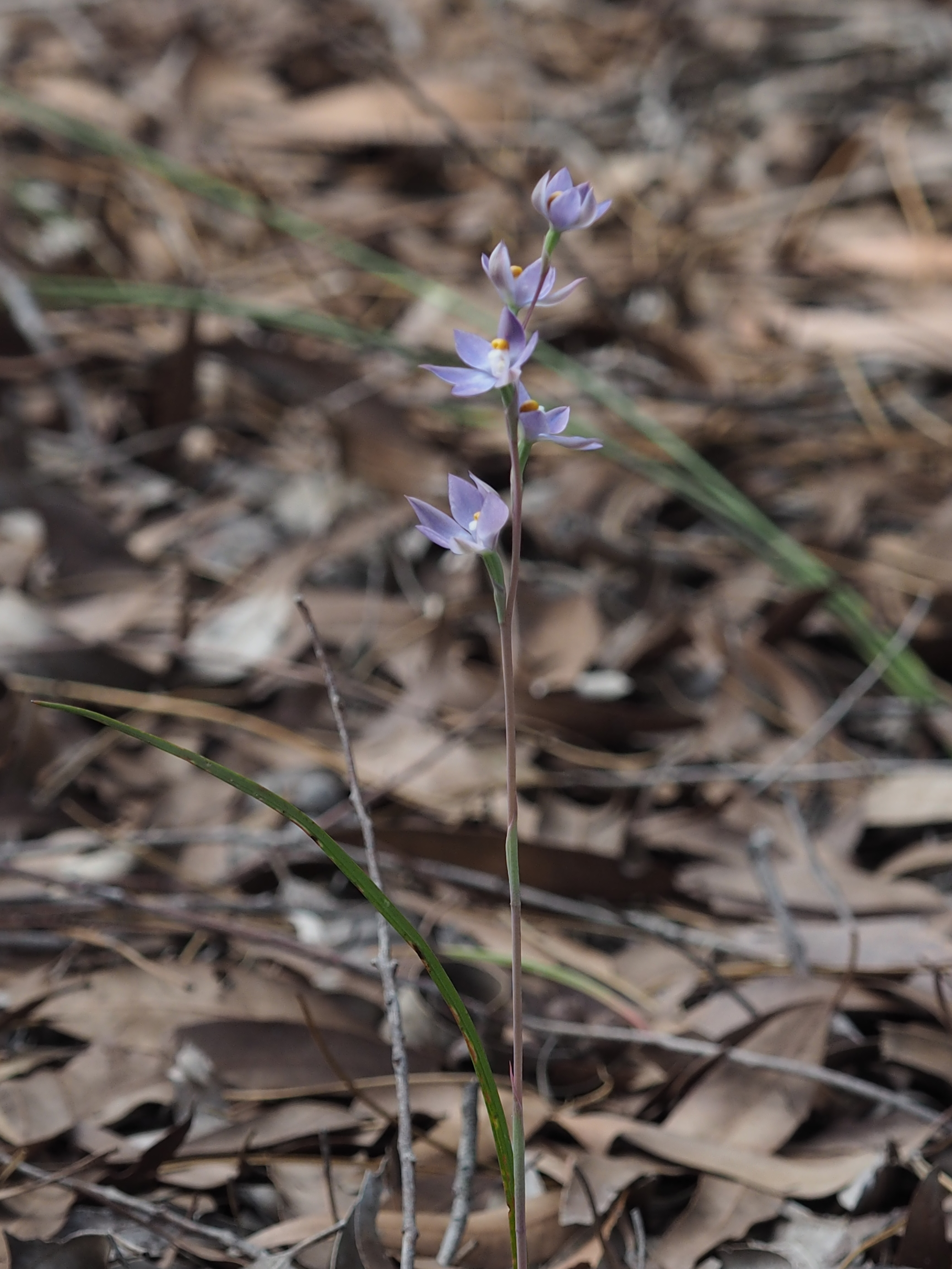 Thelymitra graminea in Helms Arboretum north of Esperance